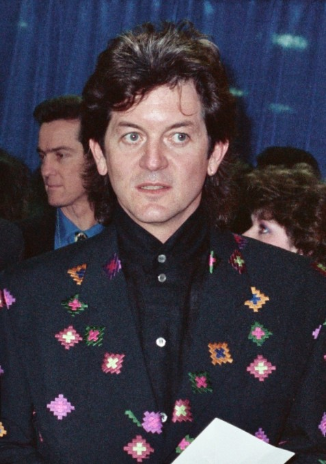 Rodney Crowell Grammy Awards - back stage during telecast - February, 1990 Permission granted to copy, publish or post but please credit "photo by Alan Light" if you can This is a cropped version of File:Rodney Crowell Grammy Awards - back stage during telecast - February, 1990.jpg